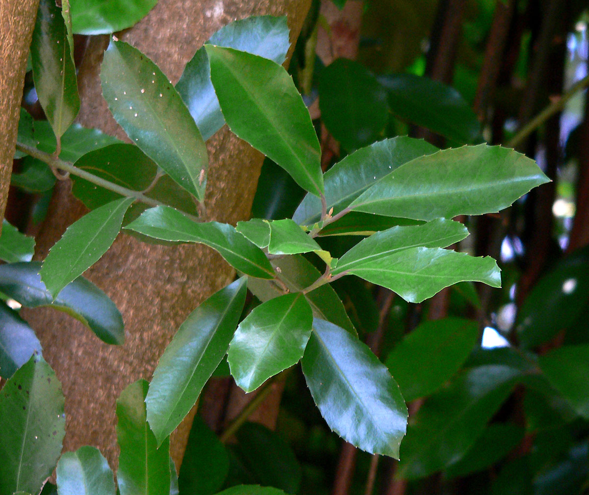 Hedycarya arborea at the San Francisco Botanical Garden